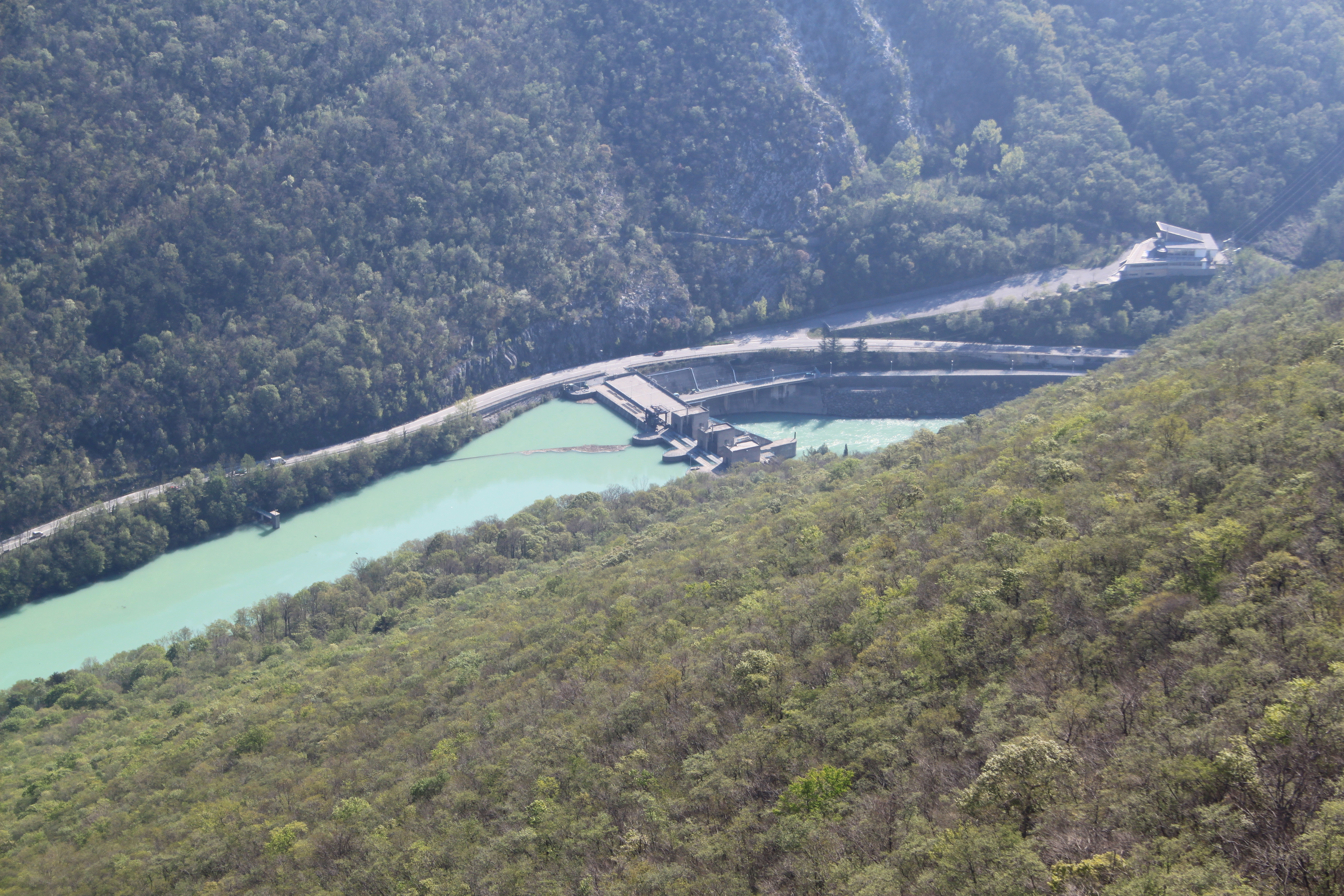 Soča / Isonzo river with hydroelectric powerplant HE Solkan, Slovenia.